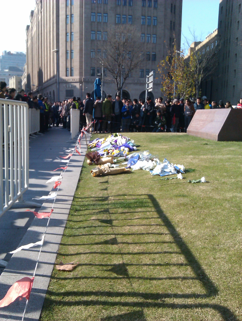 mourning for victims in the stampede(but it's not the site of stampede)